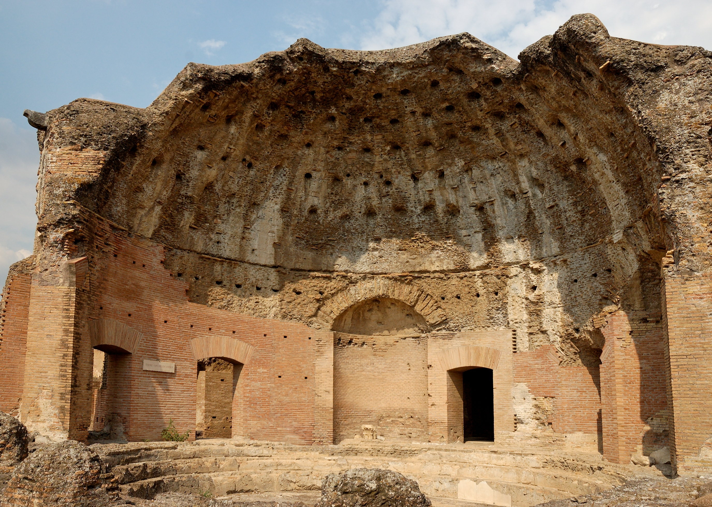 Thermae with Heliocaminus at the Villa Adriana in Tivoli.